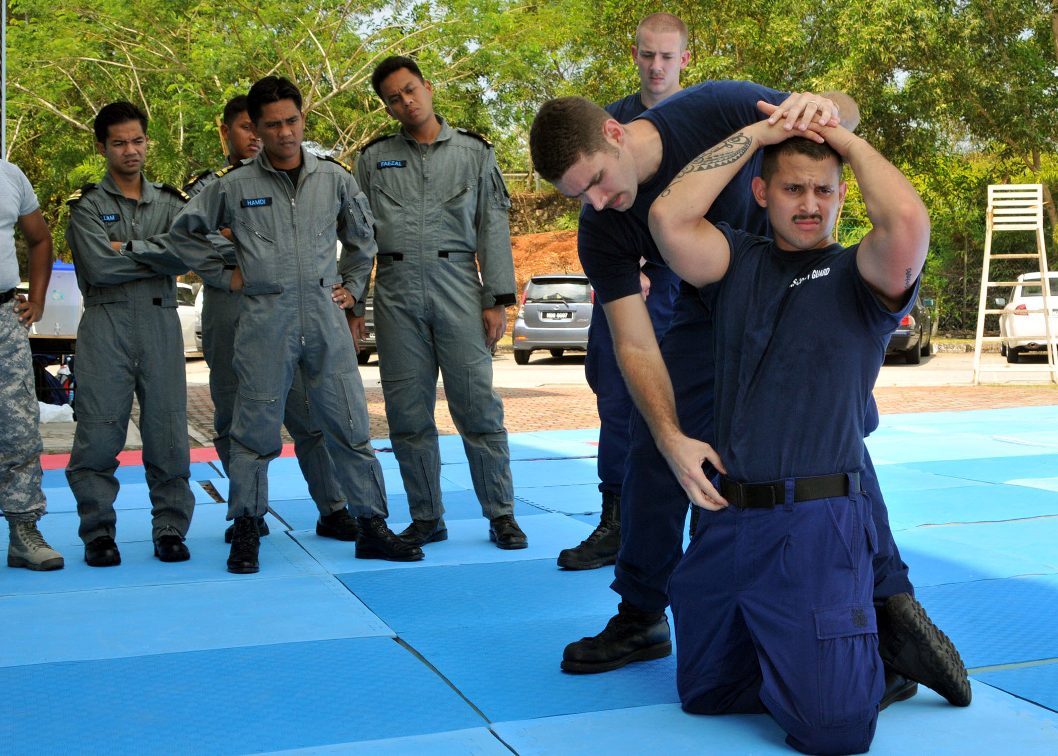 KUANTAN, Malaysia (June 8, 2011) - Malaysian Coast Guardsmen watch as U.S. Coast Guard Maritime Safety and Security Team trainers demonstrate search and detain operations during Cooperation Afloat Readiness and Training (CARAT) Malaysia 2011. CARAT is a series of bilateral exercises held annually in Southeast Asia to strengthen relationships and enhance force readiness. (U.S. Navy photo by Mass Communication Specialist 1st Class Robert Clowney/Released)